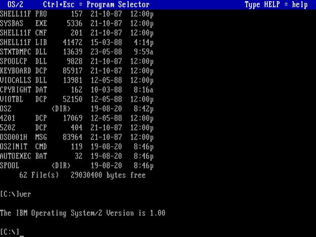 IBM OS/2 1.0 - command prompt